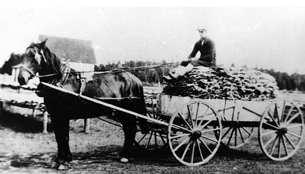 Man hauling a load of dried cod in haut-Lamèque, New Brunswick, August 9, 1928.